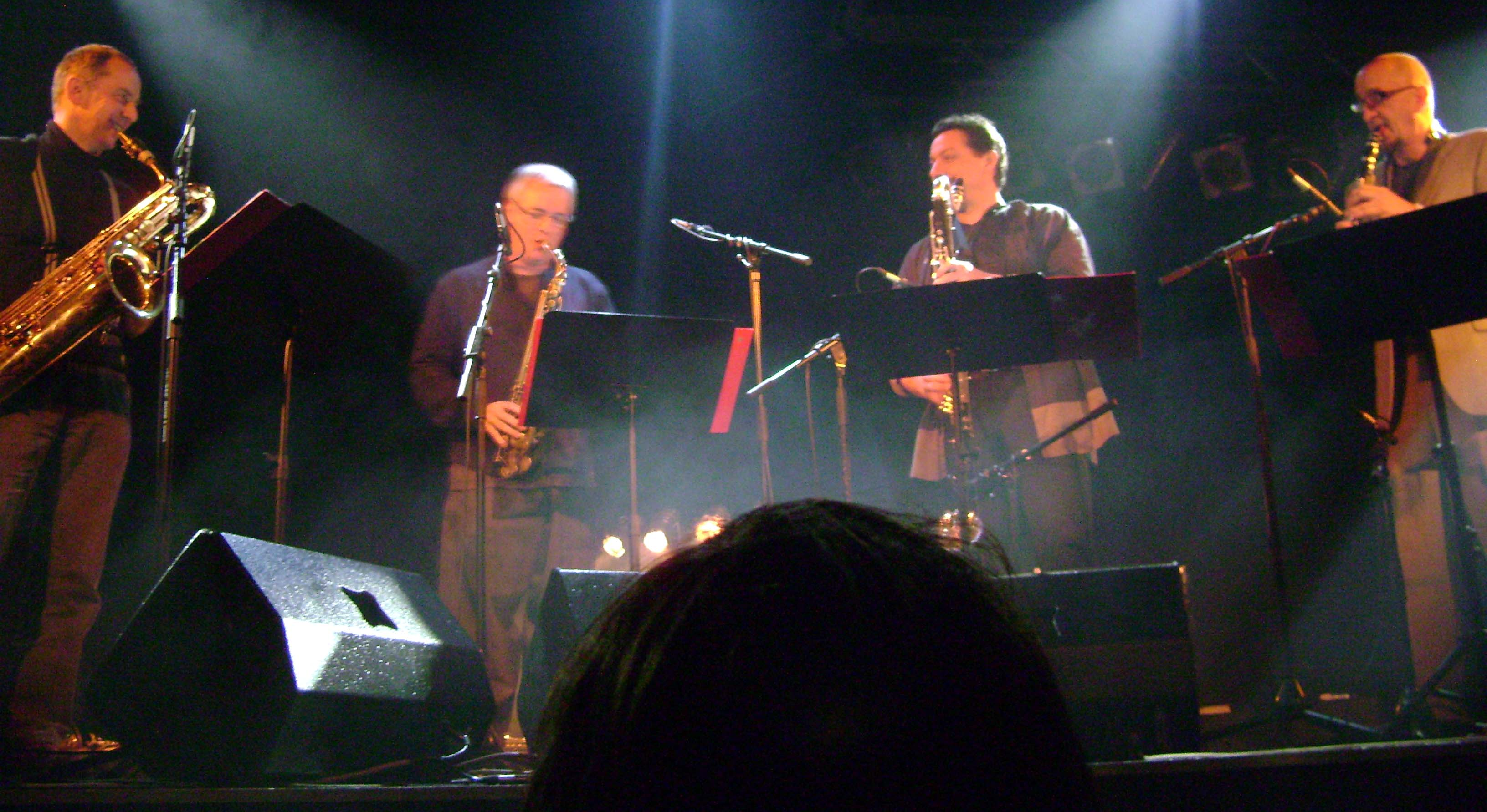 Austrian Saxophone Quartet "Saxofour", Treibhaus Innsbruck, 2008: From left to right: Florian Bramböck, Wolfgang Puschnig, Christian Maurer, Klaus Dickbauer